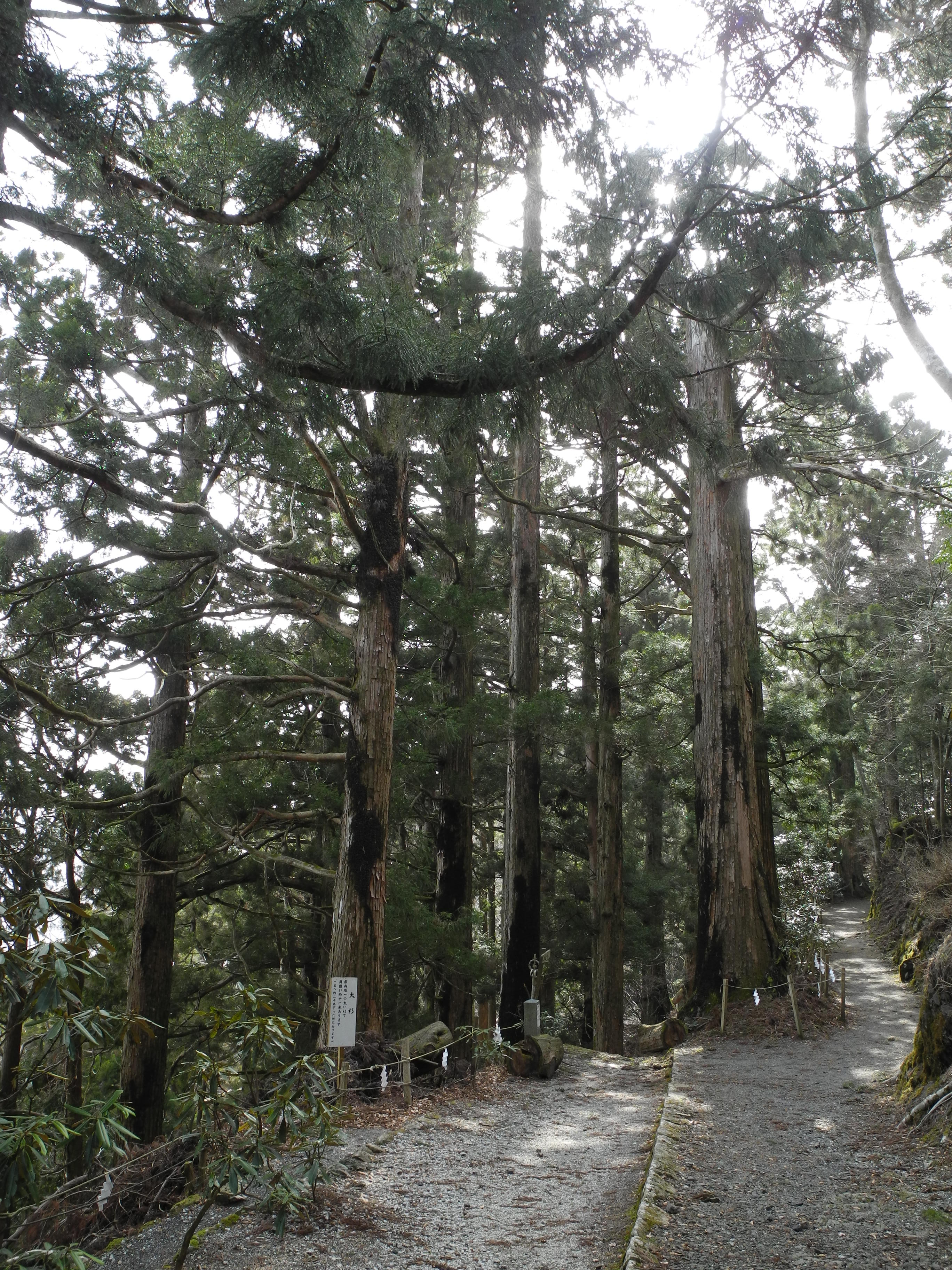 Tamaki Jinja, Totsukawa, Nara